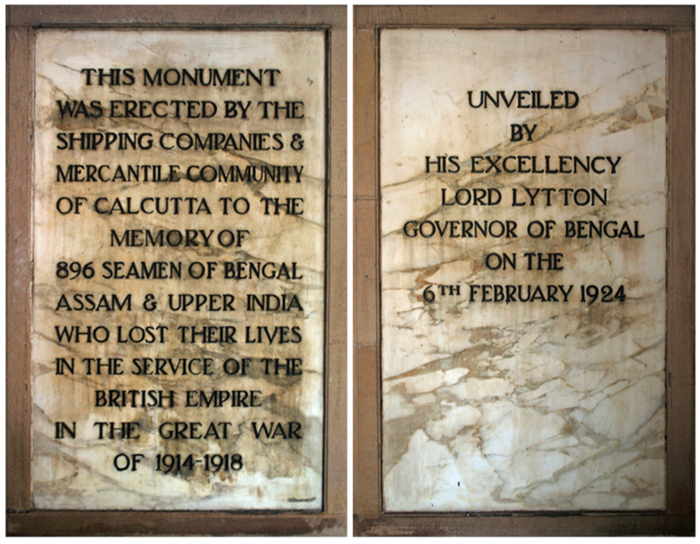 Plaques inside the Lascar War Memorial